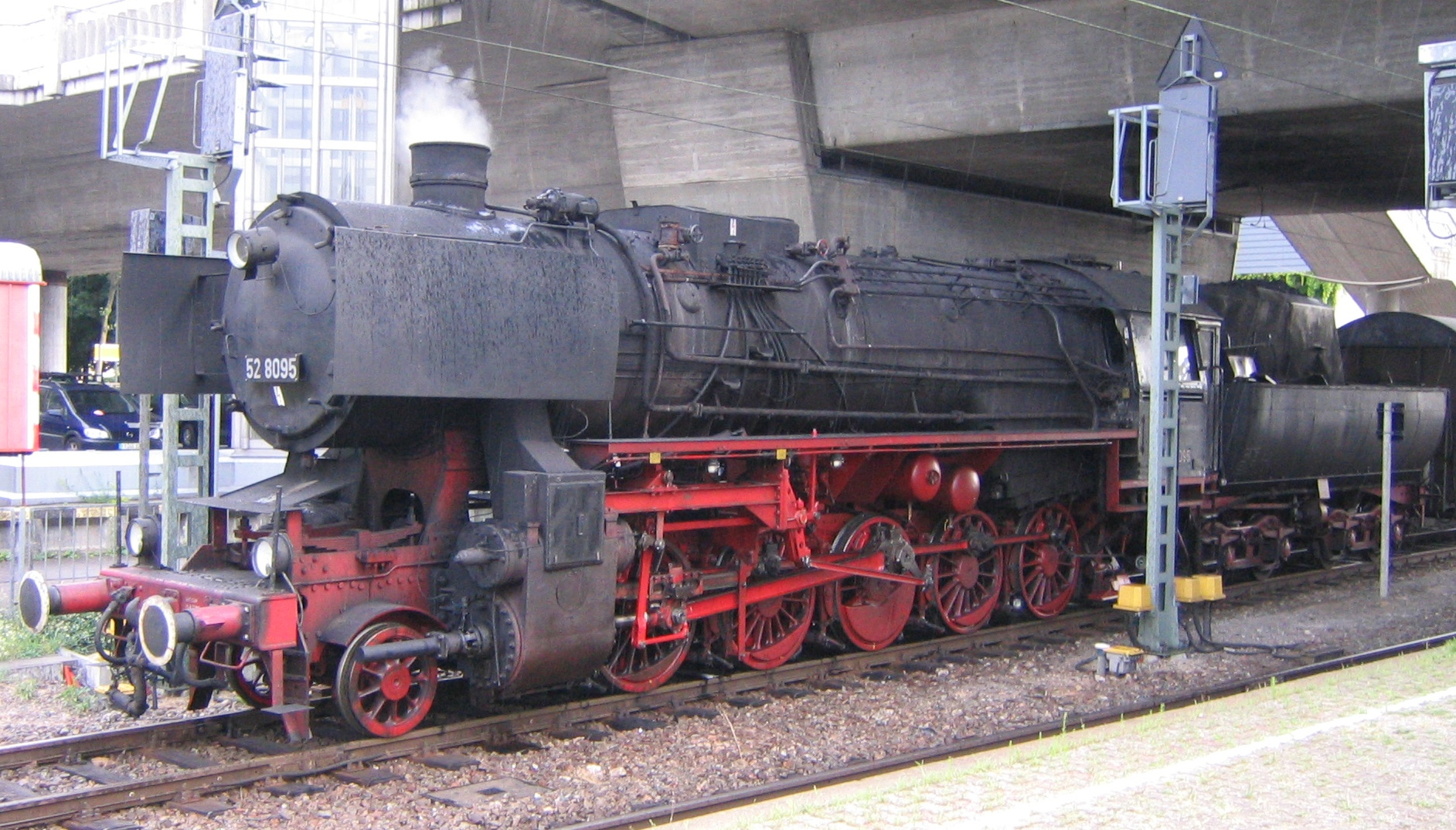 German steam locomotive DR 52 8095.